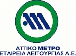 Amel Logo